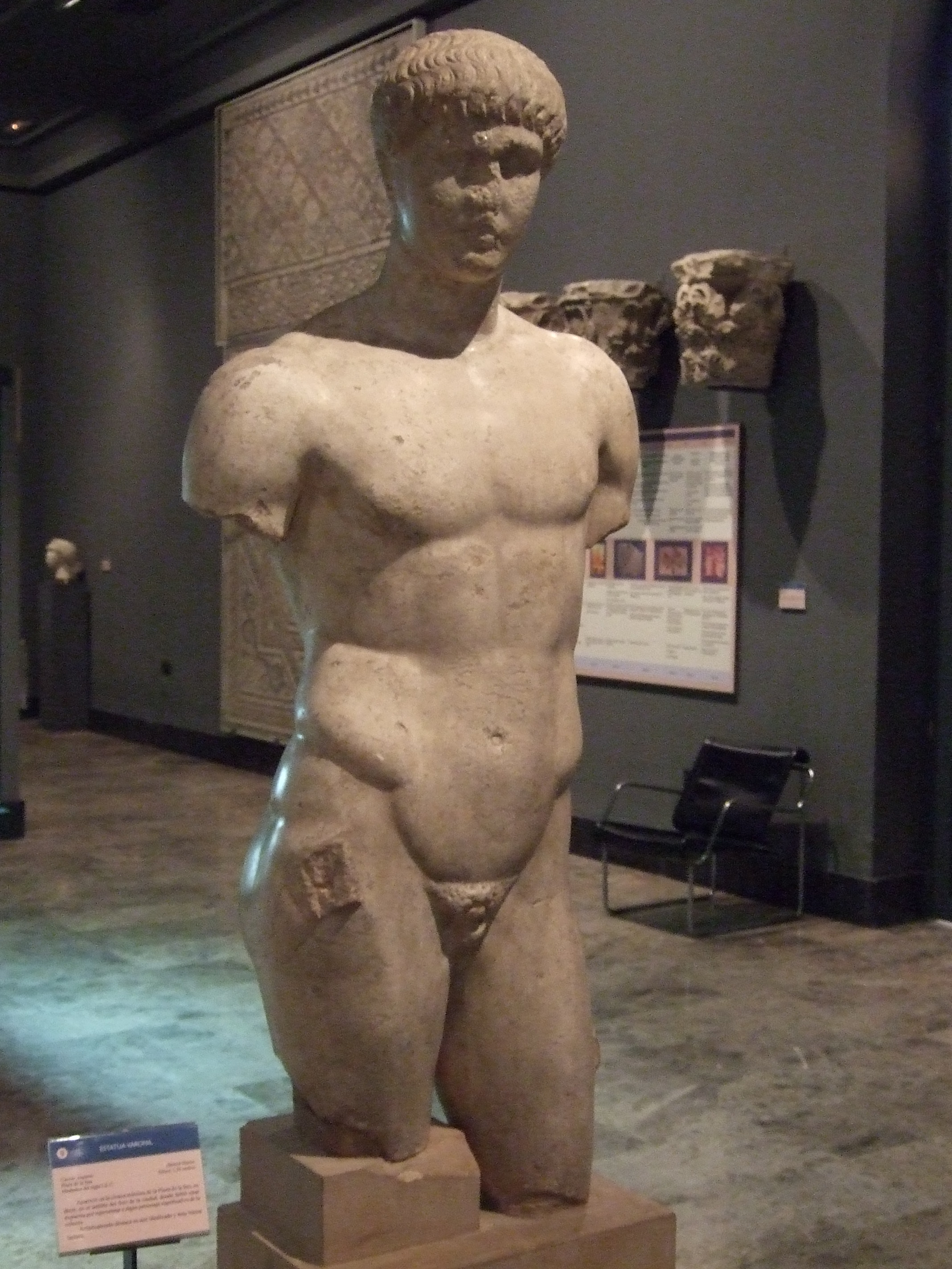 Man statue (I century BC). White marmor.